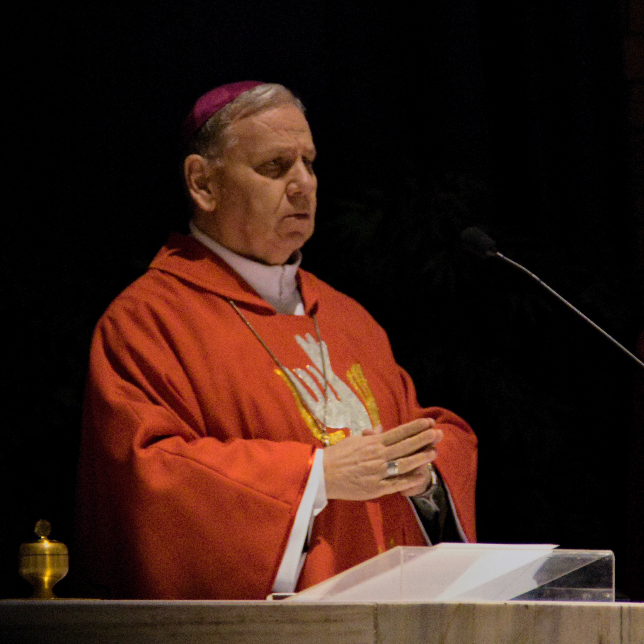 Jan Marian Kopiec (1947– ) Roman Catholic bishop from Poland; photo taken at confirmation mass in church of Black Madonna of Częstochowa in Gliwice-Trynek.